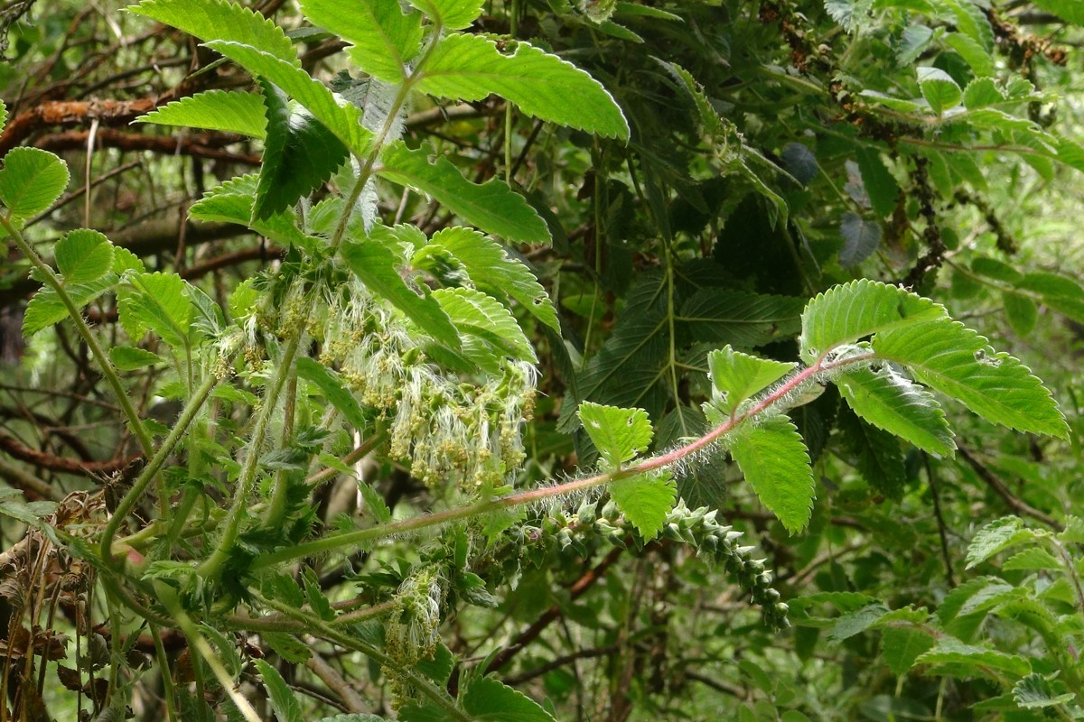 Bencomia caudata, leaves and catkins. Tenerife, Forest SW of Esperanza, S of Las Raices, beginning of the Barranco Hondo in pine wood zone, ca. 1020 m above sea level.